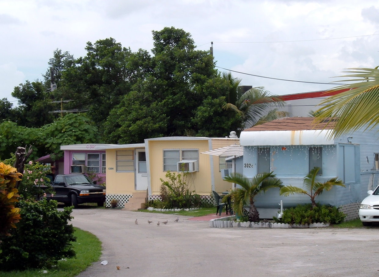 Sunnyside Trailer park in West Miami, Florida